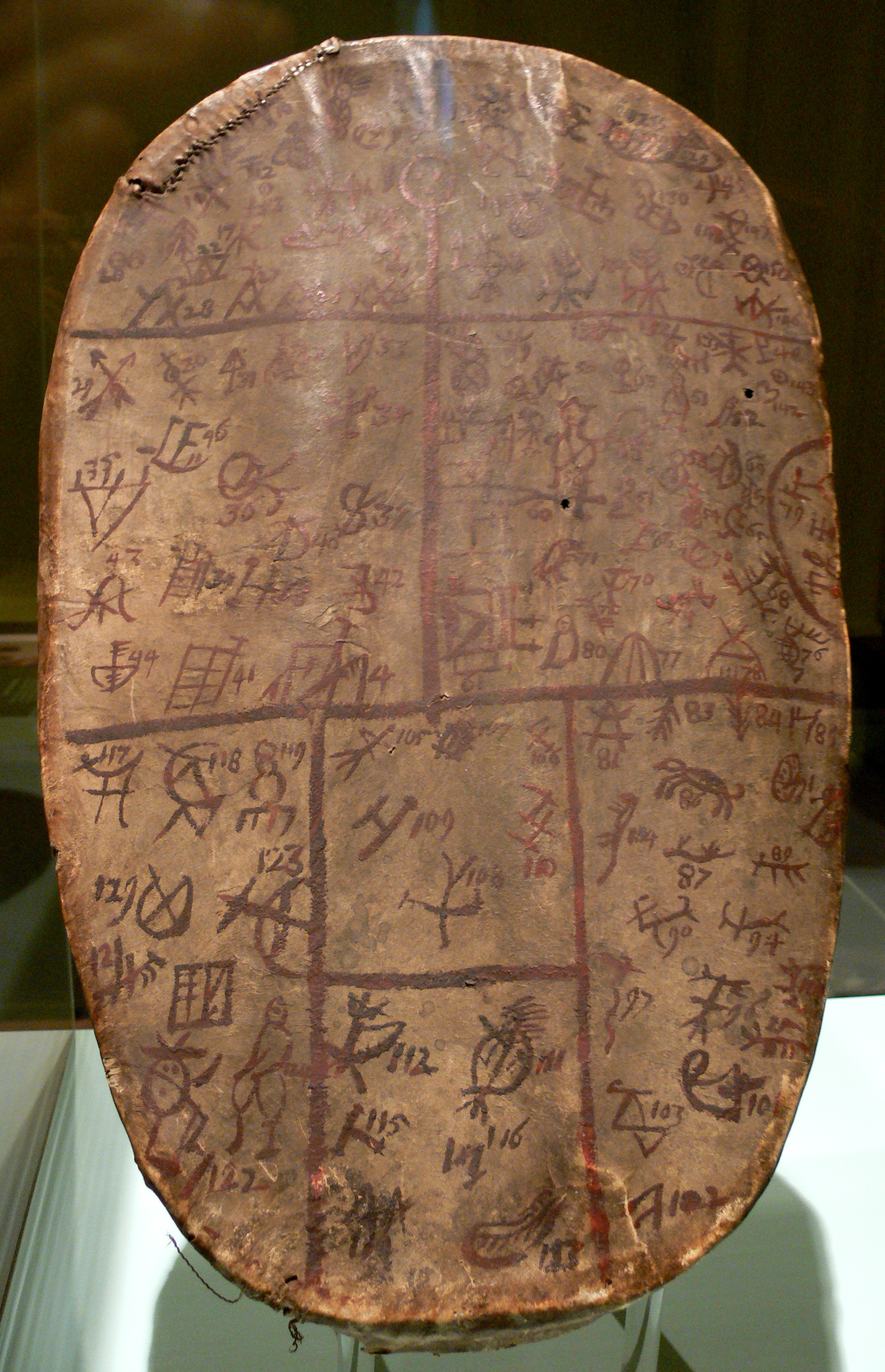 Alleged Sami drum from Torne lappmark. Frame drum. 50 x 31 cm. No 76 in Ernst Manker's Die lappische Zaubertrommel (1938/1950). According to Manker this in an inauthentic drum (unechte trommel). Even though it has some resemblance of this drum described and depicted by Johannes Schefferus in a manuscript around 1673–78, there are to many differences to be true. Manker points out dye, symbols and few traces of use to prove this a imitation. ("Dass diese trommel niemals in der üblichen weise angewendet worden ist, ergibt sich besonders deutlich aus der bemalung, deren farbbelag keinerlei abnutzung erkennen lässt. der fremde farbstoff und oft auch die zeichnung der figuren deuten auf eine imitation, die, wenn auch der rumpf der überlieferung ziemlich nahe belibt, kaum das werk eines lappen ist.") Manker suggests that it might be a copy of a model drum ("Modelltrommel") used to educate or imitate, where all known figures from every drum are shown together. No provenience before 1830 when described at Museum für Volkerkünde, Berlin together with this drum. Now in Ethnologisches Museum, Berlin